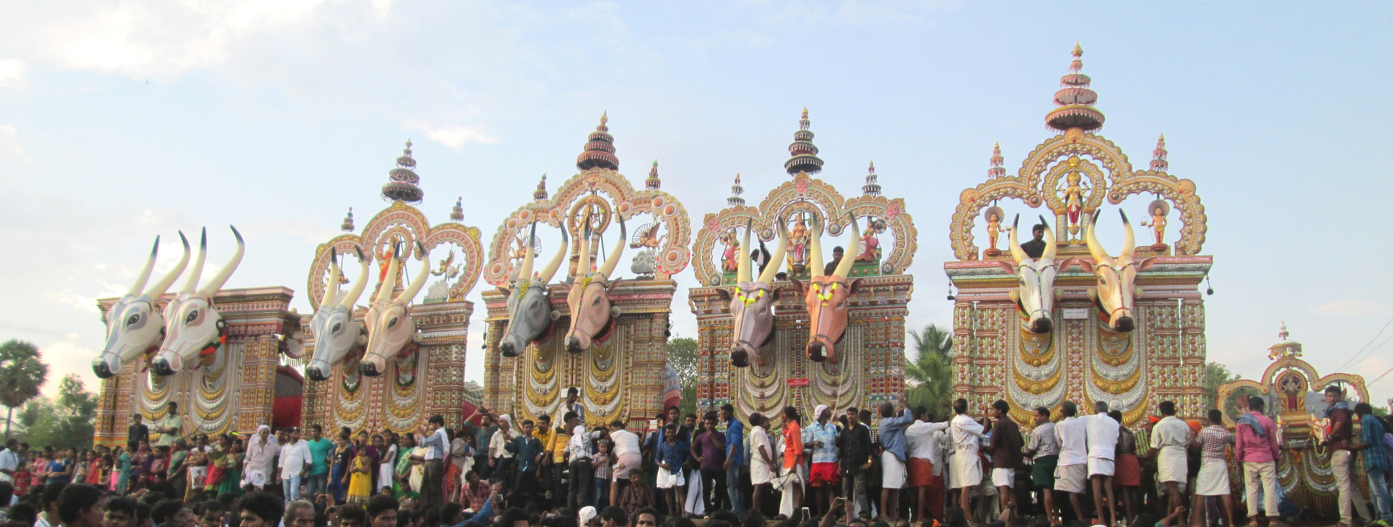 Kalavela is an offering of people to Goddess to thank for favors received as well as to seek her blessings for the health and protection of their cattle